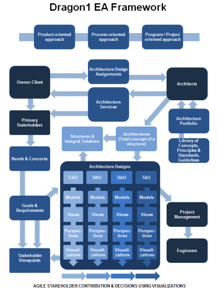 This image shows the Dragon1 Architecture Framework